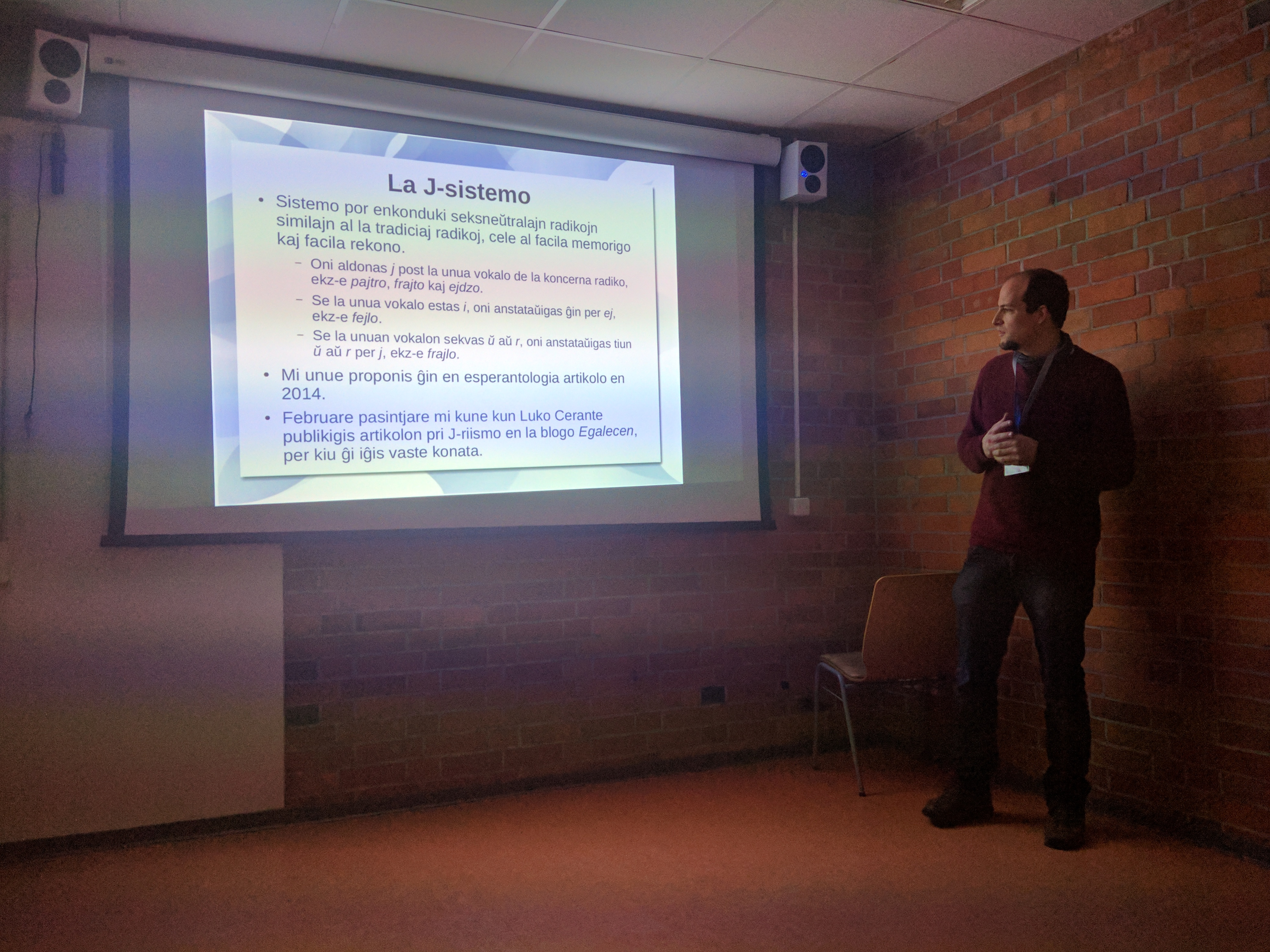 Presentation during JES 2018-2019 by Marcos Cramer about J-riismo and gender equality in Esperanto.